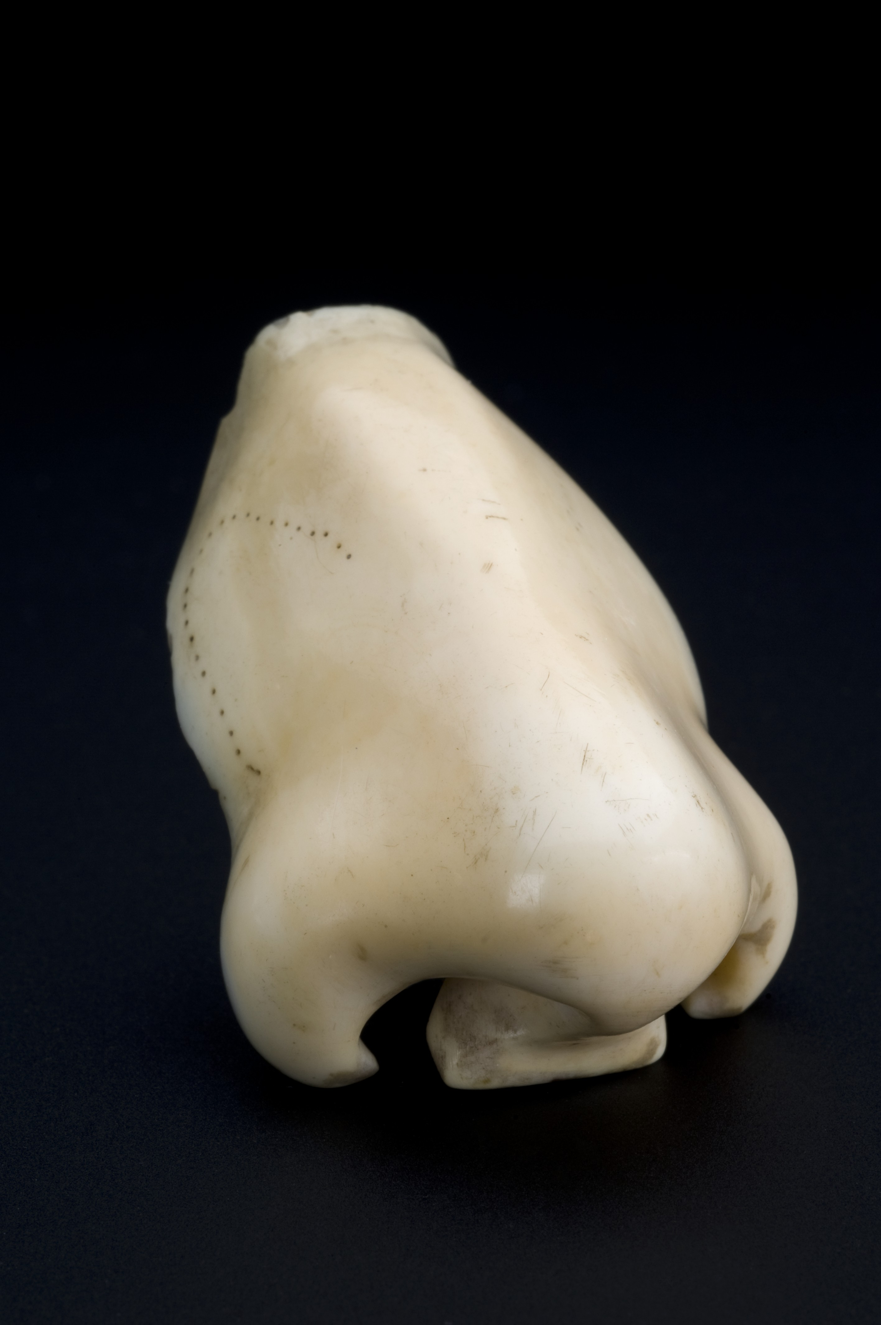 Carved from a single piece of ivory, this prosthetic nose would have been an expensive purchase beyond the means of most people. It is unclear how the nose was worn as there are no holes for straps. It may have been fixed to any existing nasal structure. Common causes of nose injuries were warfare and syphilis (a sexually transmitted infection that can eventually cause the bridge of the nose to collapse). maker: Unknown maker Place made: Europe Wellcome Images Keywords: sexually transmitted infection; artificial nose; prostheses; Syphilis